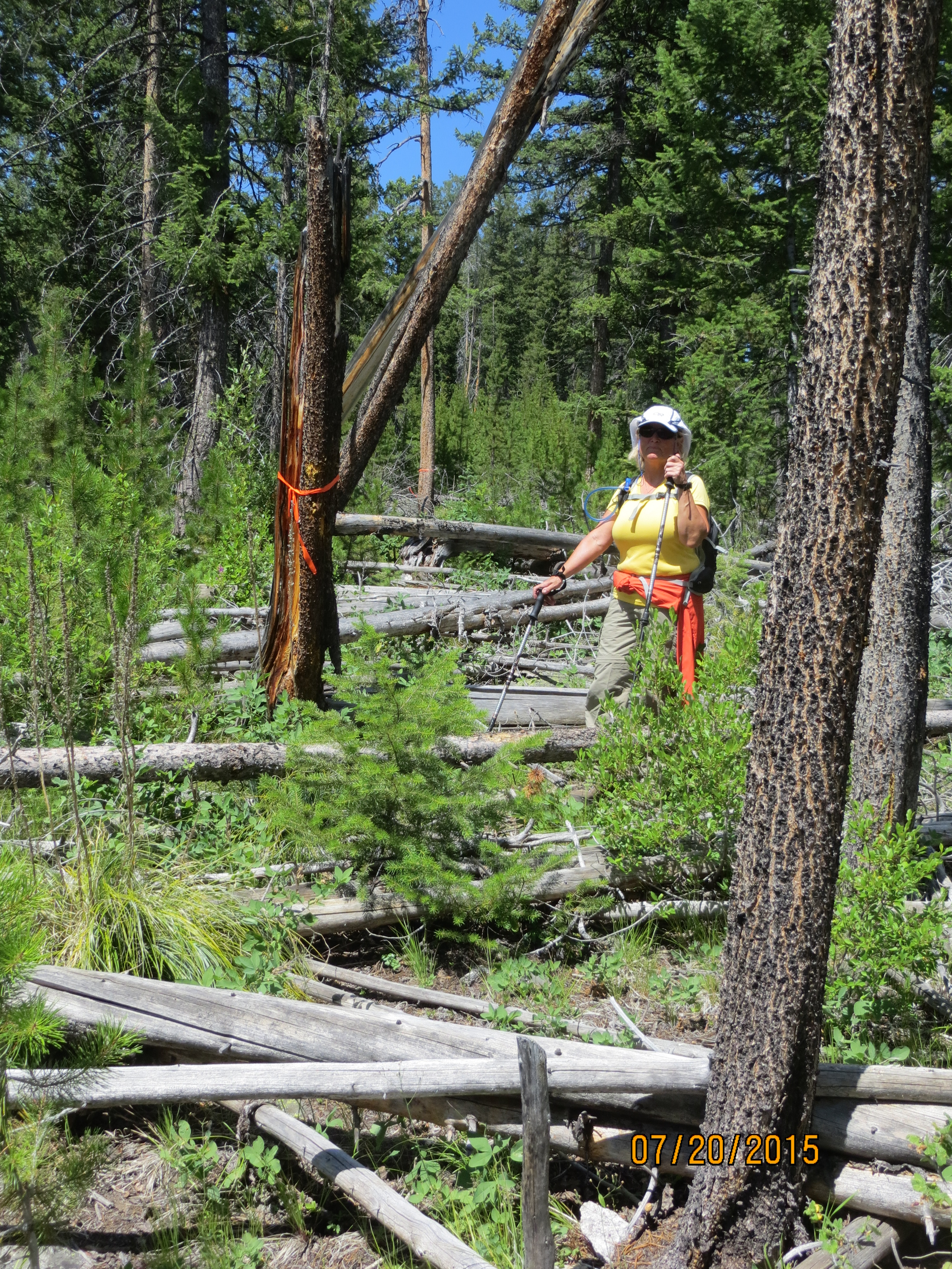 Photo taken 2015 to show the Three Blaze Trail covered in deadfall trees near Moose Creek.